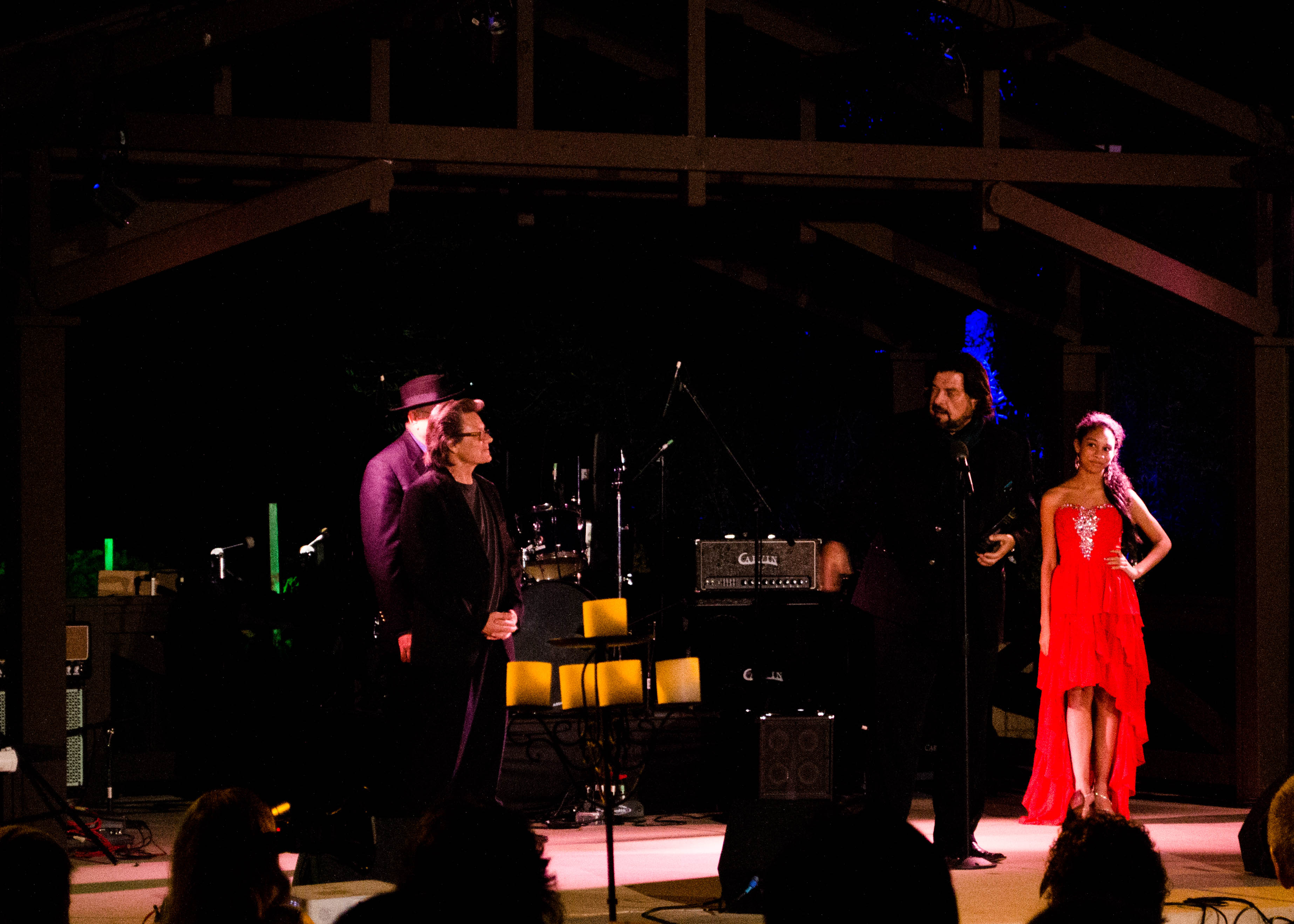 Alan Parsons, receiving the Lifetime Achievement Award at the 2014 Temecula Valley International Film Festival. The award is being presented by saxophonist Scott Page and producer Ken Rose.